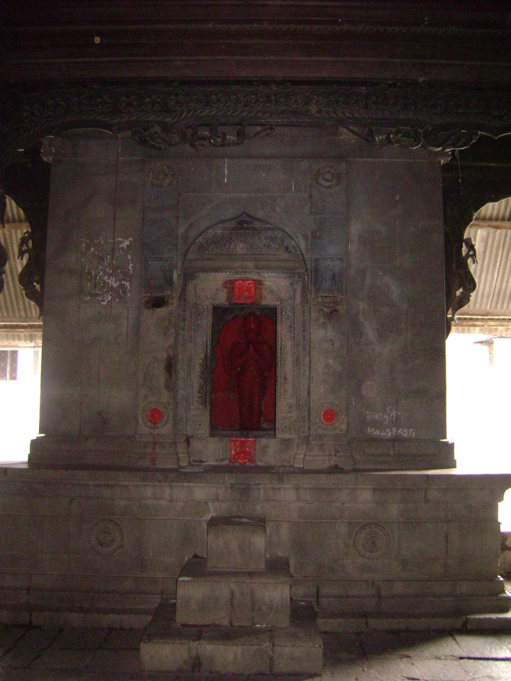 श्री कल्याण स्वामींचे उत्तराधिकारी श्री मुद्गल स्वामींची समाधी .तेथे दासमारुती स्थापन केला आहे .